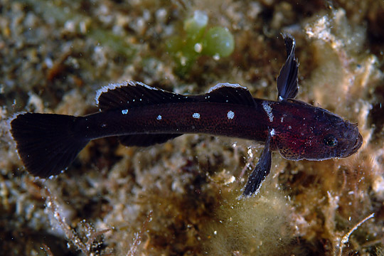 Didogobius schlieweni photographed near Tuscany coasts (Italy). Photo by Stefano Guerrieri.